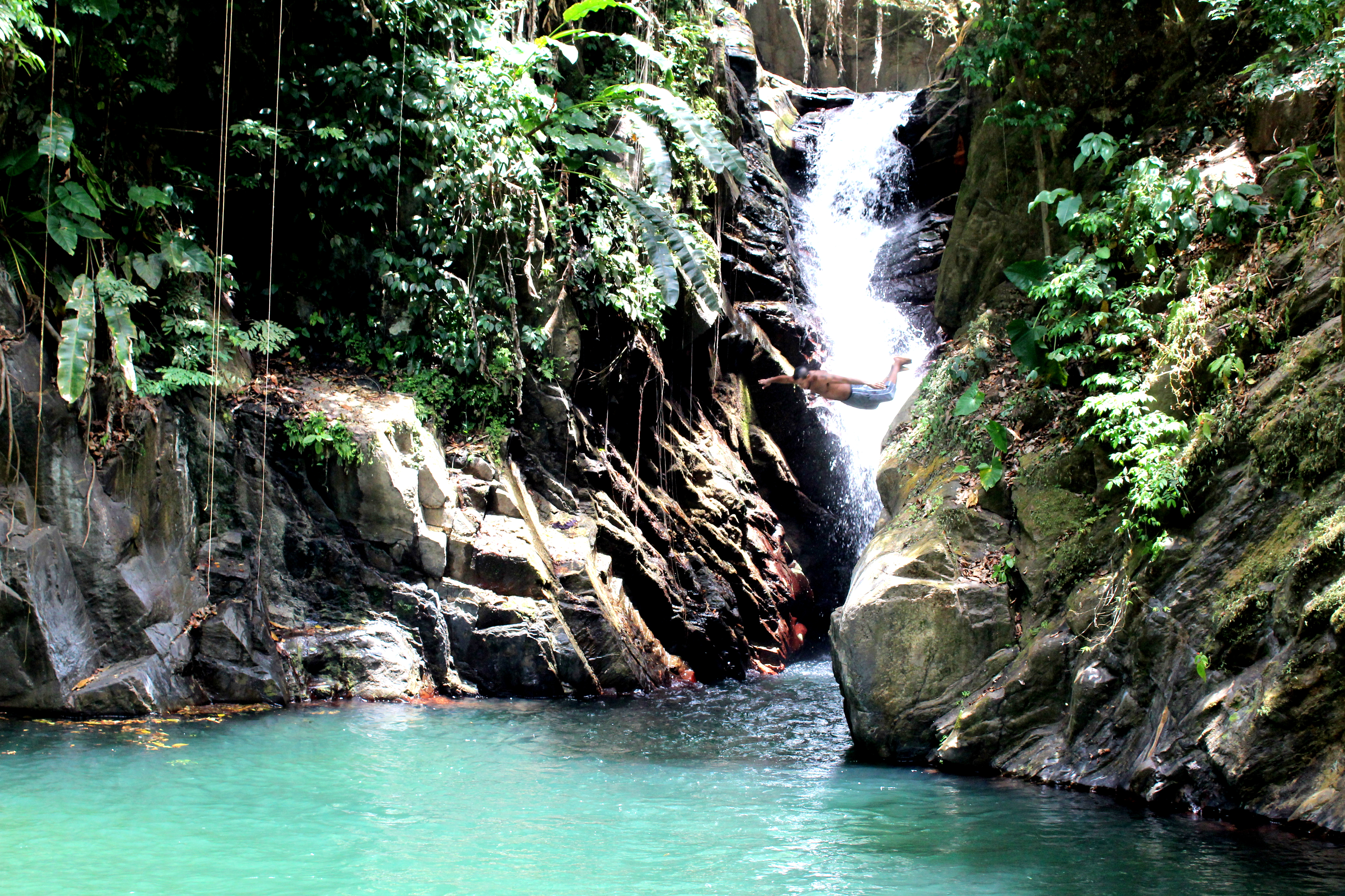 Waterfalls in Trinidad